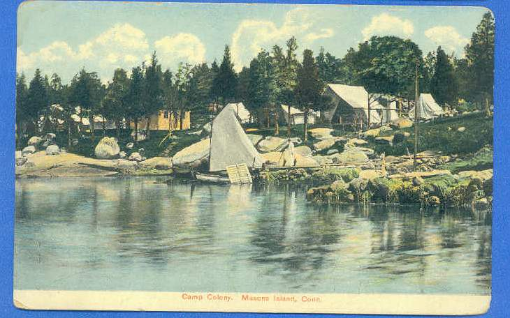 Postcard: Mason's Island, Mystic, Connecticut, about 1910 Description: "early litho-chrome post card view of Masons Island, Mystic, Connecticut showing the Camp Colony. Published by The Rhode Island News company. ca 1910."